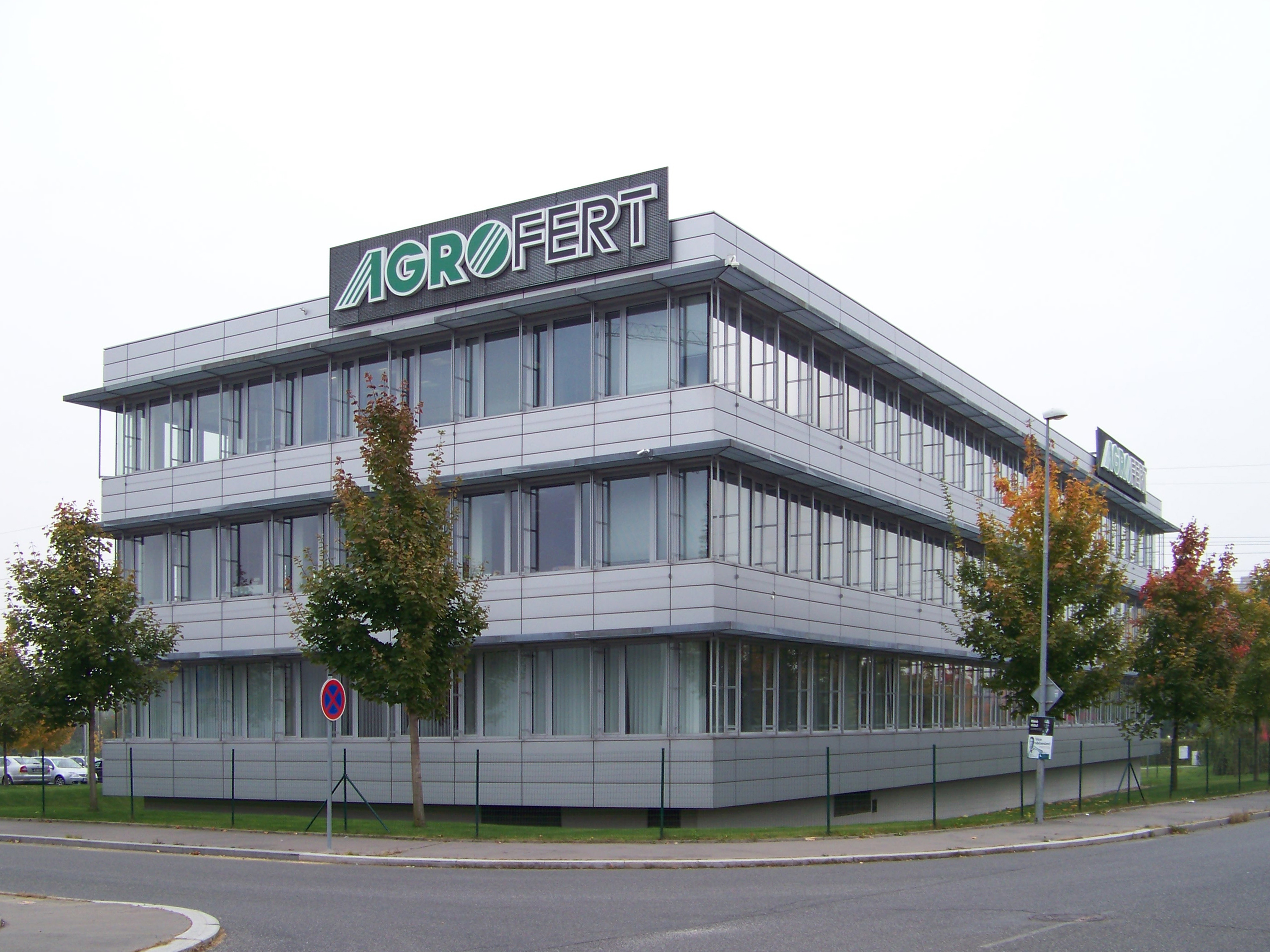 Prague-Chodov. Chodovec, Klíčova, Pyšelská 2327/2, Agrofert.